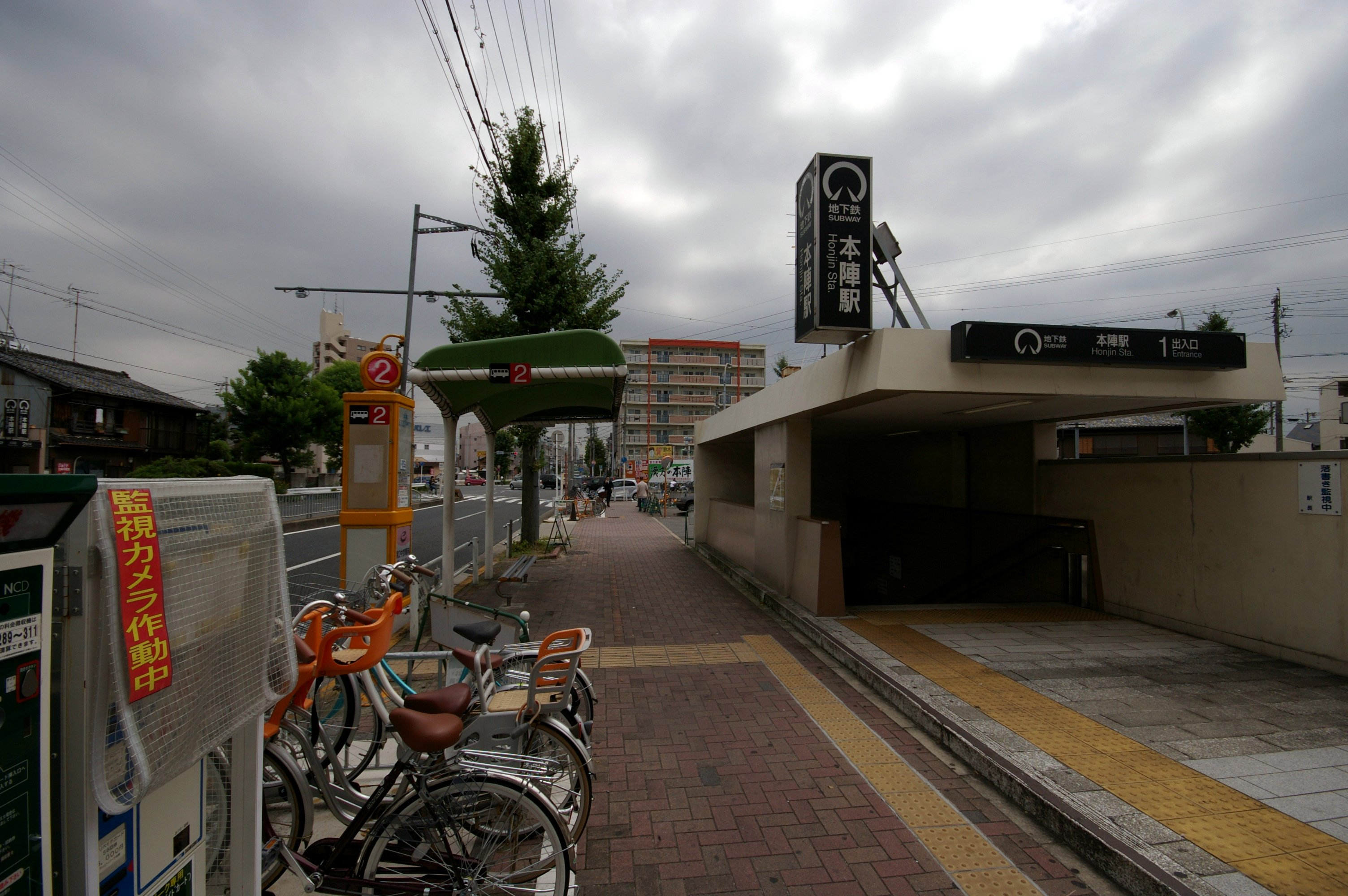 Nagoya Honjin Subway Station